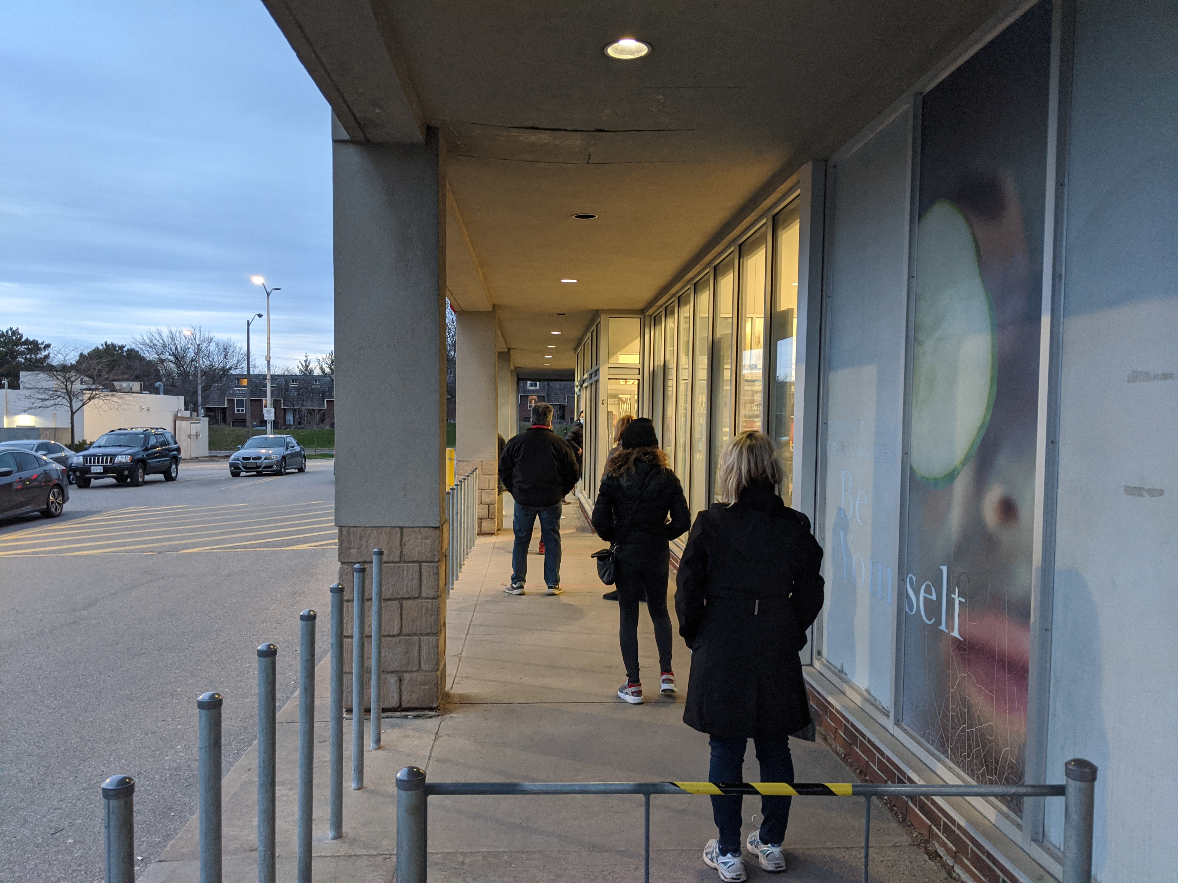 Customers waiting to enter Shoppers Drug Mart in Toronto in April 2020